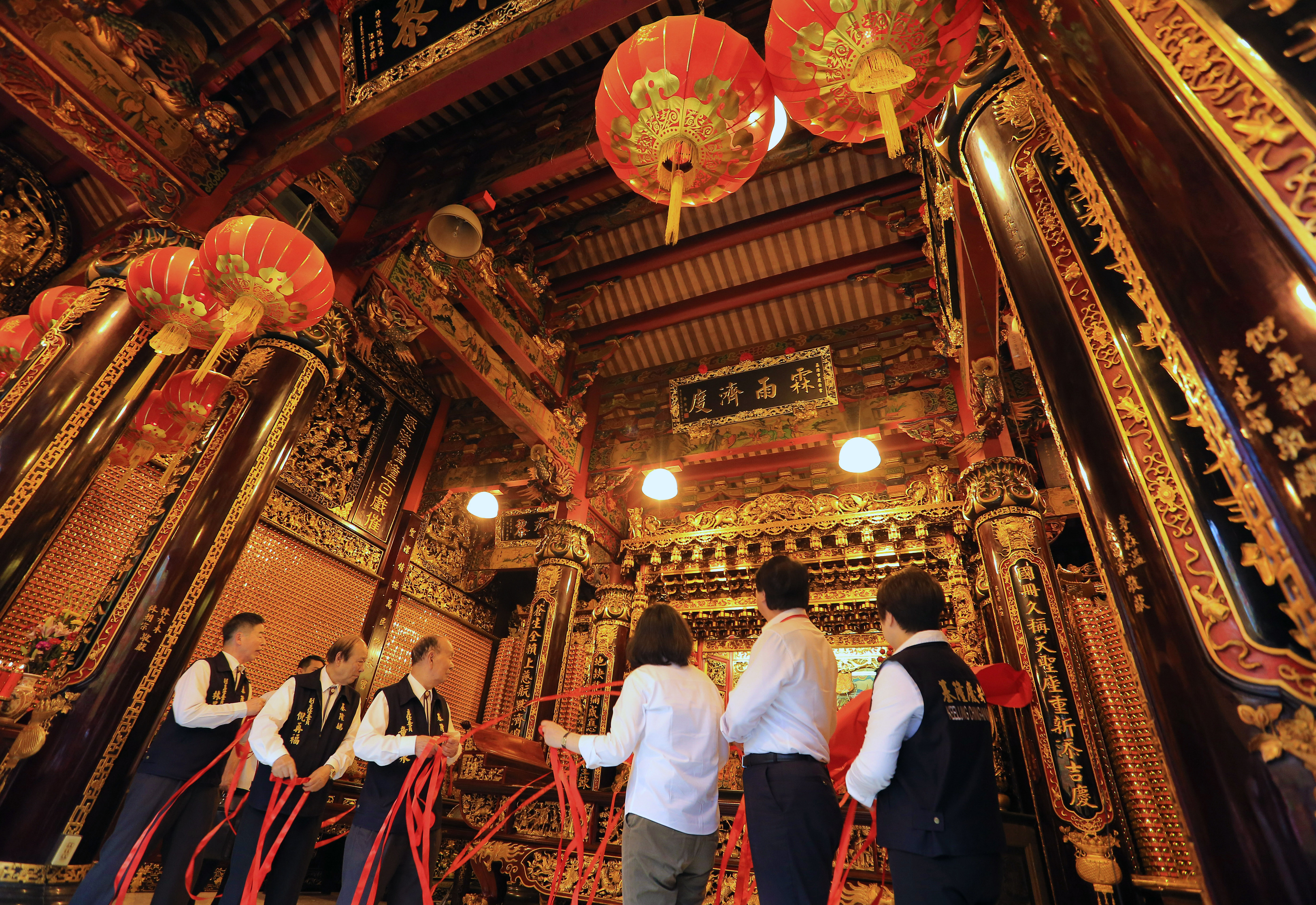 授權方式及範圍：中華民國總統府│政府網站資料開放宣告 Authorization Method & Scope: Office of the President, Republic of China (Taiwan) | Government Website Open Information Announcement